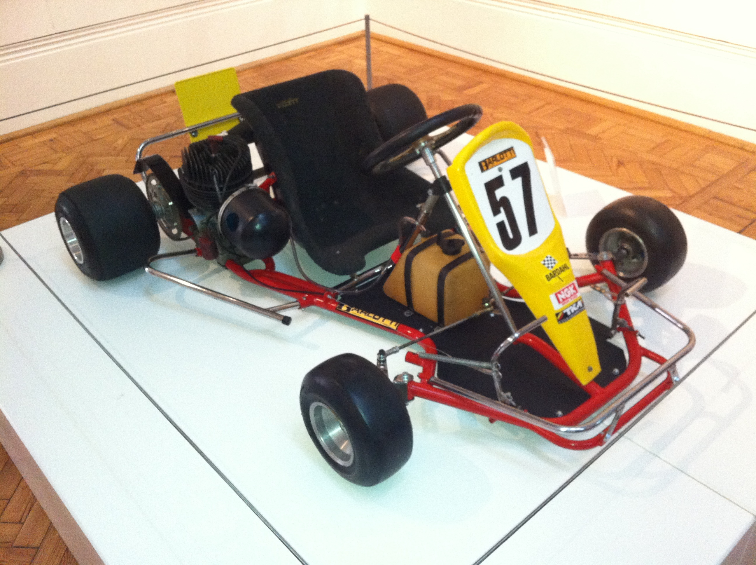 Barlotti kart on display in Reading Museum, May 2012. Taken at the "Bikes, Balls & Biscuitmen - Our Sporting Life" exhibition at the Museum of Reading, 12 May 2012